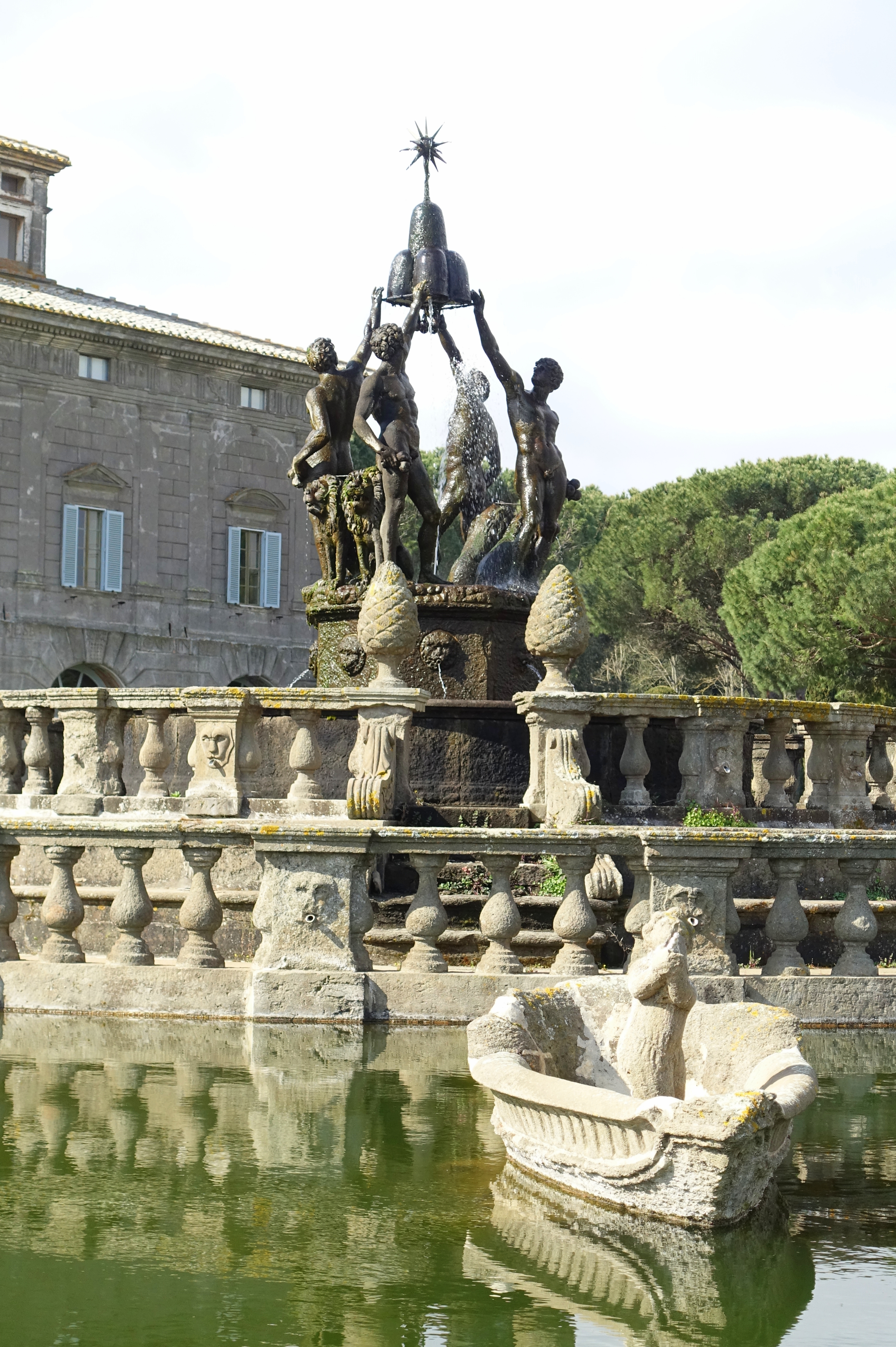 Fontana dei Mori - Villa Lante, Bagnaia, Italy.